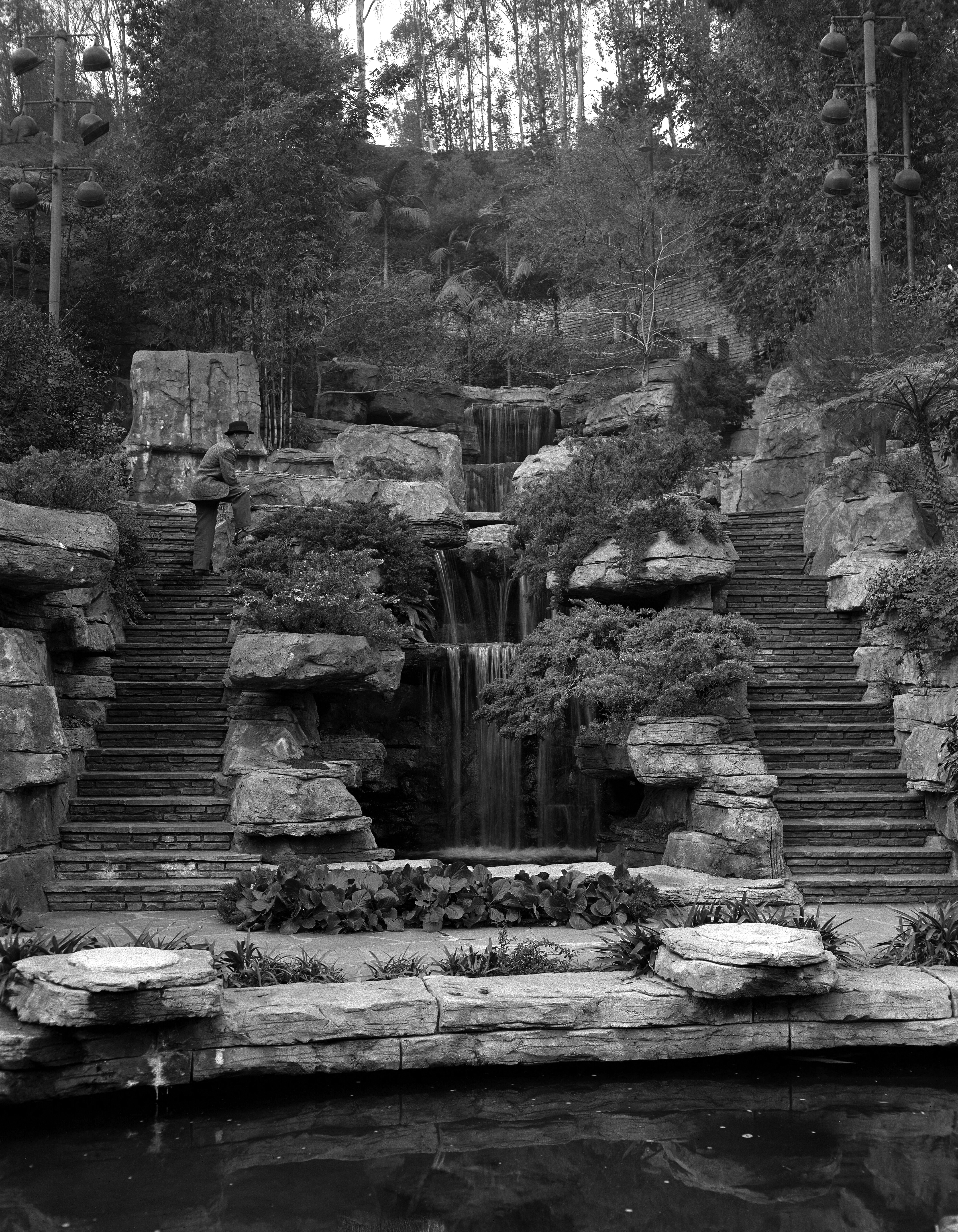 Title: Know Your City No.53 Waterfall and rock garden located behind the Los Angeles Police Academy in Elysian Park Published caption:KNOW YOUR CITY, NO. 53 -- This is really a toughie and, if you think it is Fern Dell in Griffith Park, you couldn’t be wronger. Not too many people have seen this rock garden. Clue: If you mined, you might find copper. Answer on Page3, Part 2. Publication:Los Angeles Times Publication date:January 9, 1956 Notes:ANSWER: You really couldn’t be expected to recognize the scene in the photo, but just to satisfy your curiosity, it is a picturesque rock garden hidden behind the Police Academy in Elysian Park. ("If you minded, you might find a copper" -- wow!) Declared Historic-Cultural Monument #110 by the City of Los Angeles in 1973. Source:Los Angeles Times photographic archive, UCLA Library Note about non-renewal of copyright: [1]